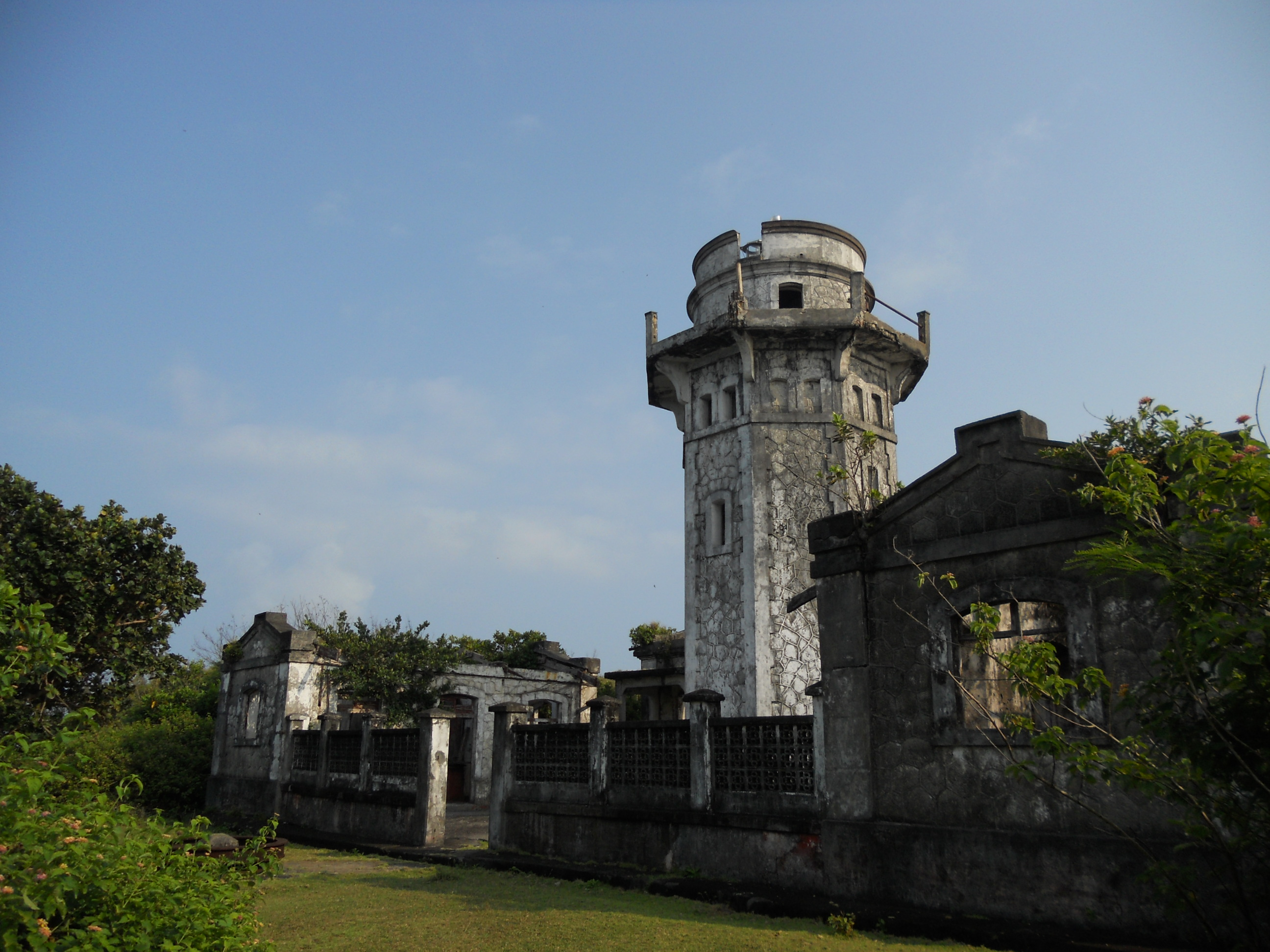 Cape Engaño Ruins taken in 2011